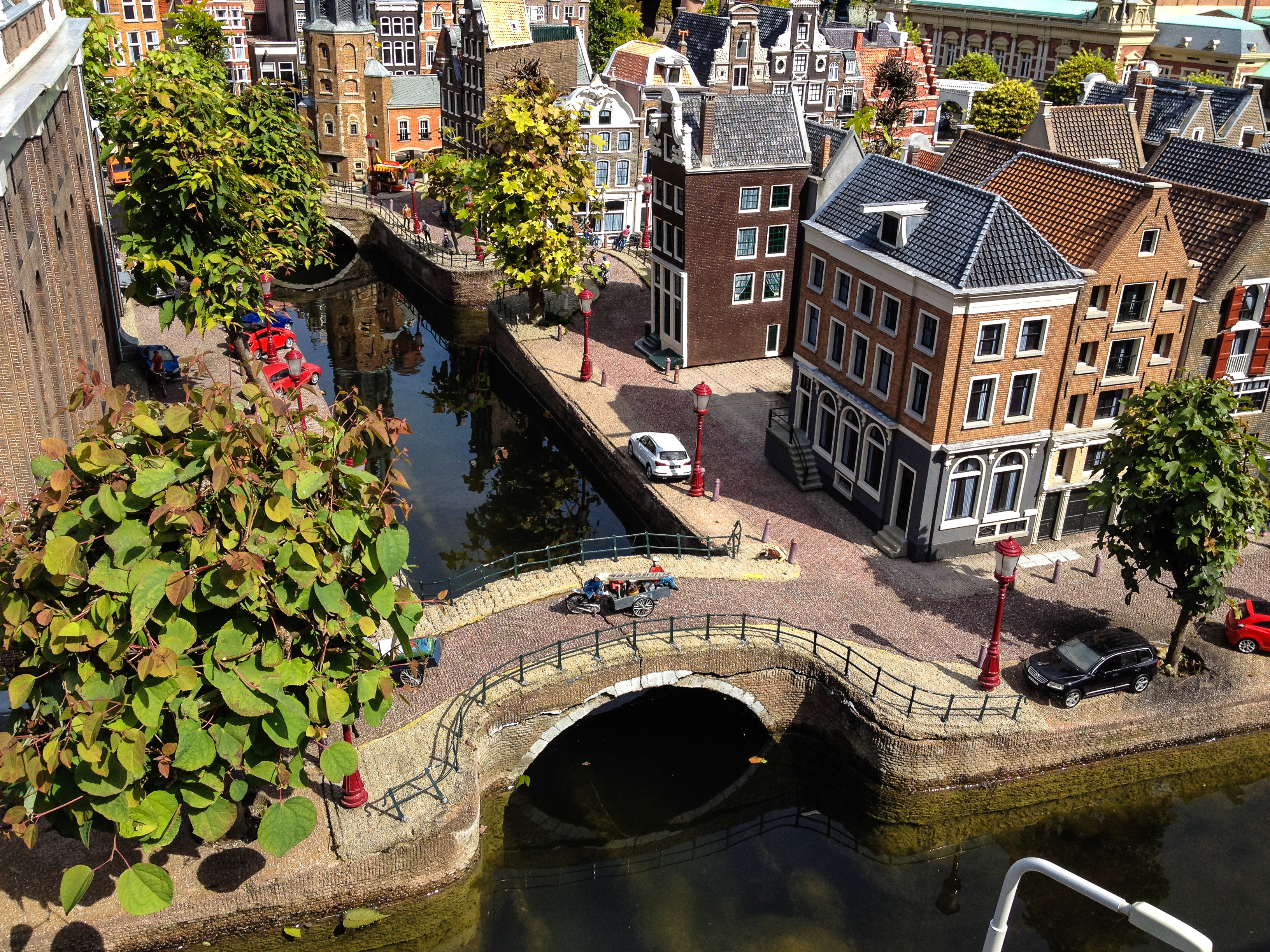 Madurodam is a miniature city located in Scheveningen, The Hague, in the Netherlands. It is a model of a Dutch town on a 1:25 scale, composed of typical Dutch buildings and landmarks, as are found at various locations in the country. This major Dutch tourist attraction was built in 1952 and has been visited by tens of millions of visitors ever since.